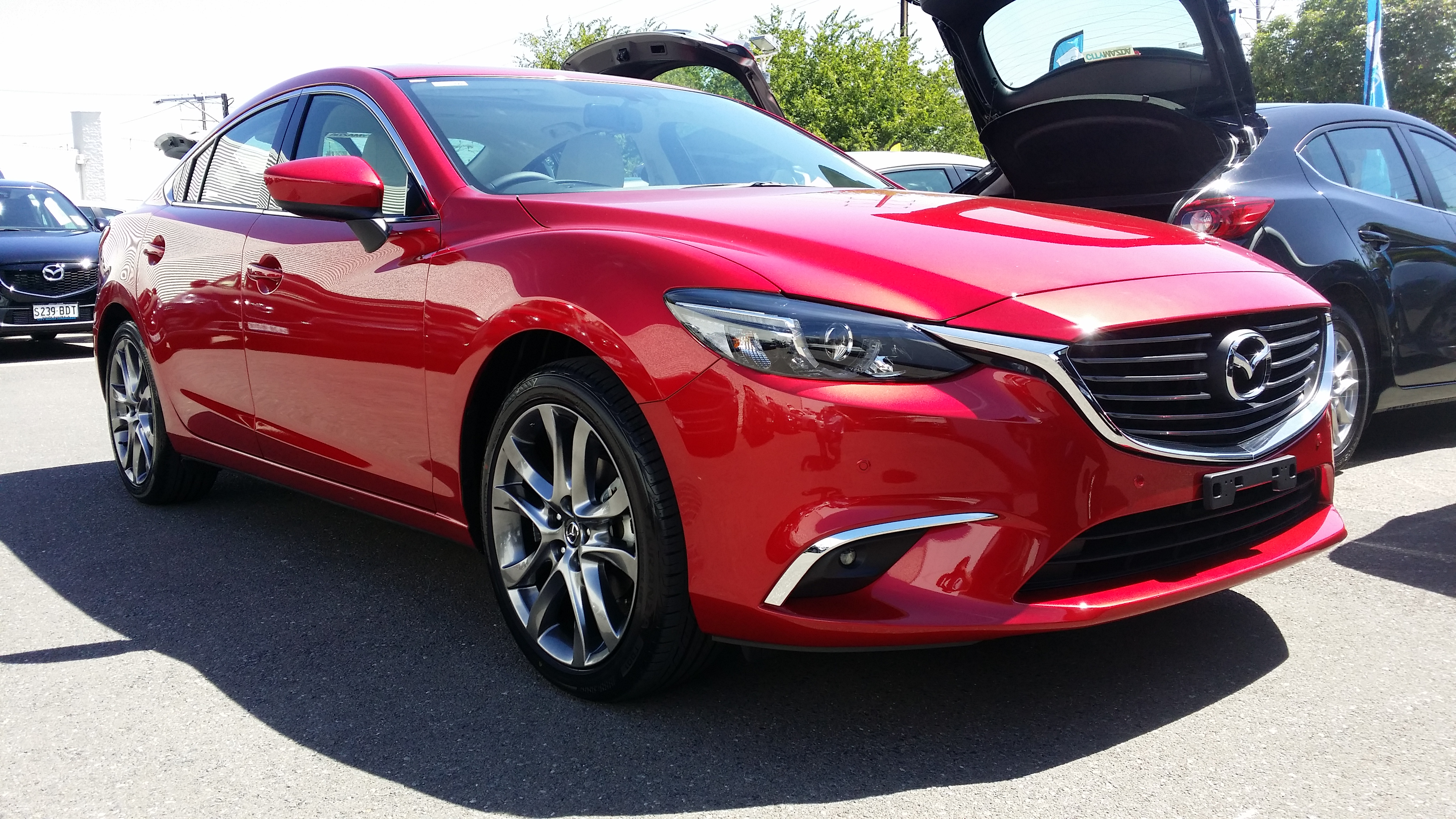 We received our first new facelifted Mazda 6 today, a GT in Soul Red. I really like what they've done with the upgrades, especially the polished alloy wheels, simpler grill and the new centre console upgrade. They've also done away with the handbrake lever and there is now an electric handbrake button, like what's also found in the new facelifted CX-5, which was also released in Australia last week.